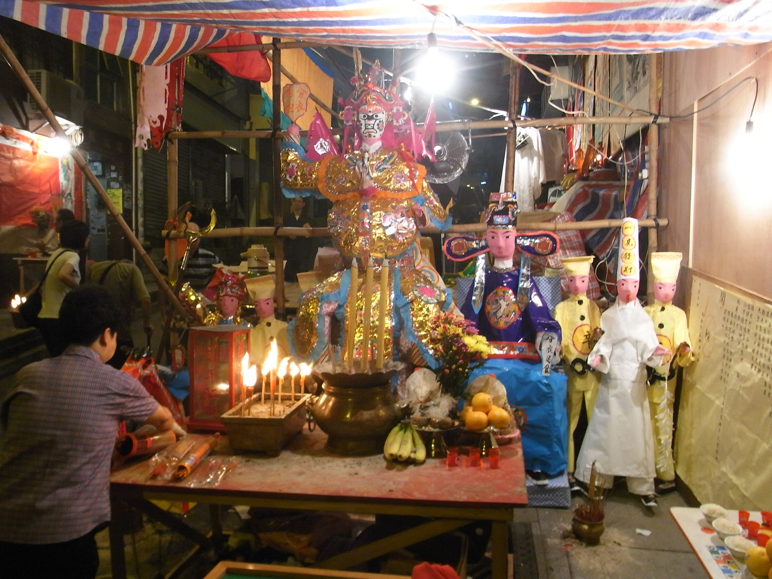 中元節與盂蘭盆節香港神工戲藝人表演, Yu Lan Festival, Sheung Wan, Hong Kong